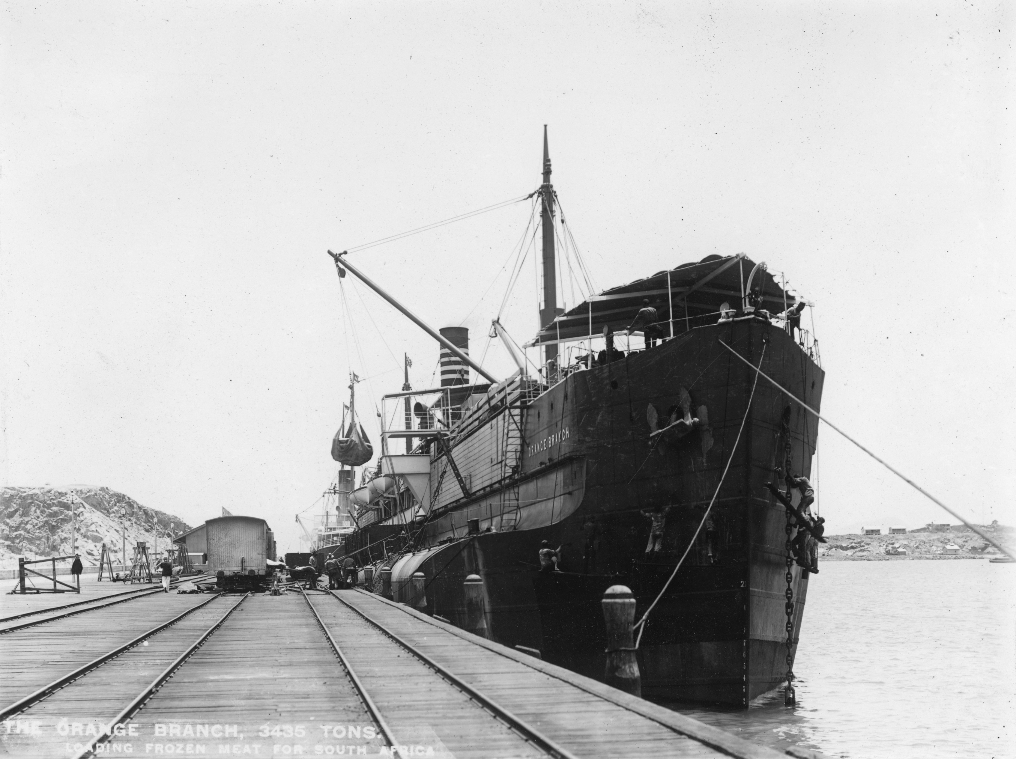 The 3,435 GRT turret-deck cargo steamship Orange Branch at Townsville docks, Queensland. A cargo of frozen meat bound for South Africa is being aboard from the freight cars alongside.Wm Doxford & Sons of Sunderland, England built the ship in 1896 and launched her as Bullionist for Angier Bros of London. Nautilus Steamship Co of London bought her in 1898 and renamed her Orange Branch. Kaye, Son and Co of London bought her in 1919 and renamed her Kemmel. She ran aground in São Vicente, Cape Verde in 1920 and was wrecked.